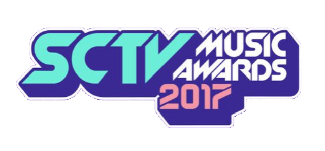 This image is the logo of the award ceremony SCTV Music Awards held annually.